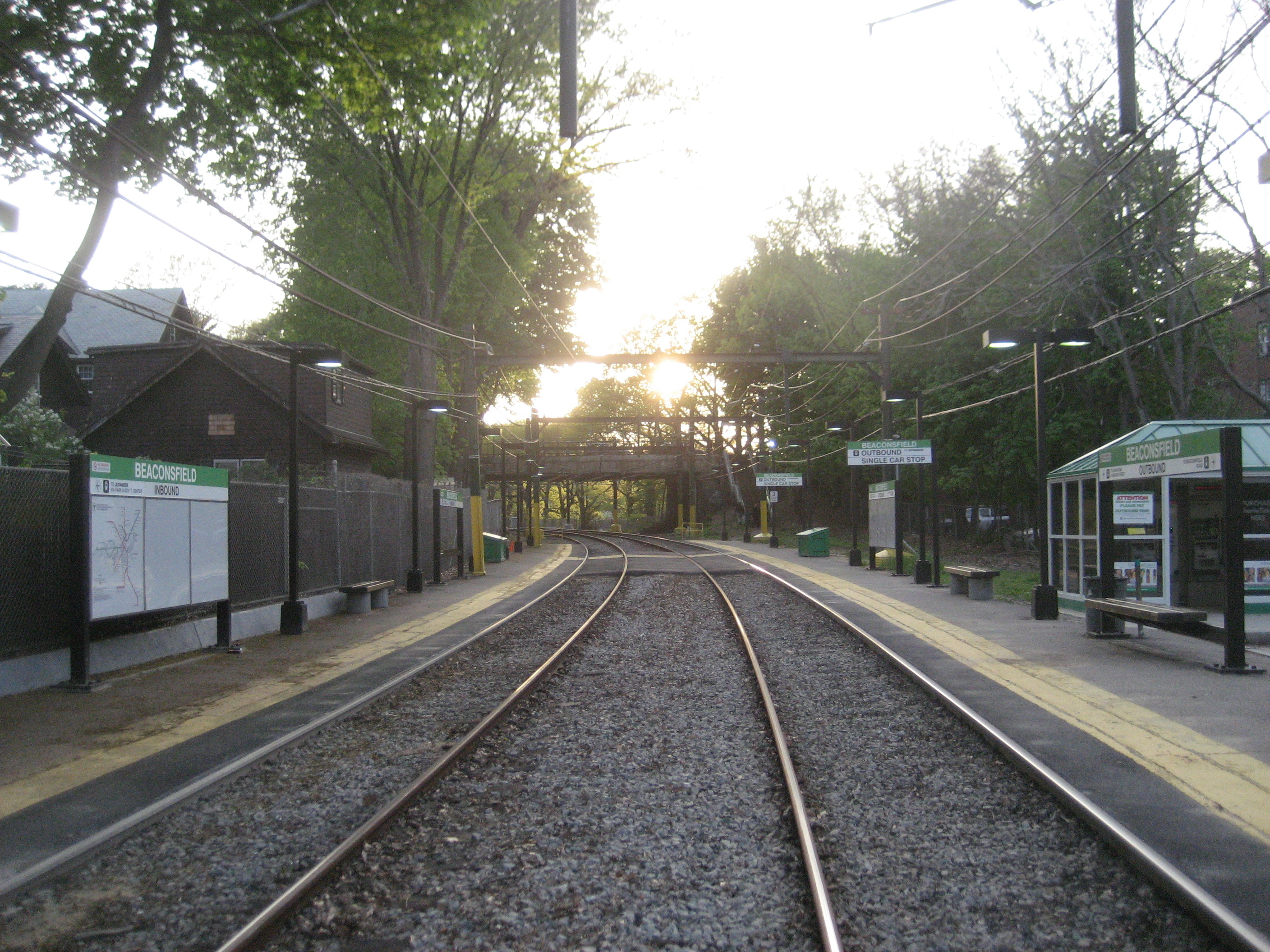 Sunset at Beaconsfield station on the MBTA Green Line's D Branch